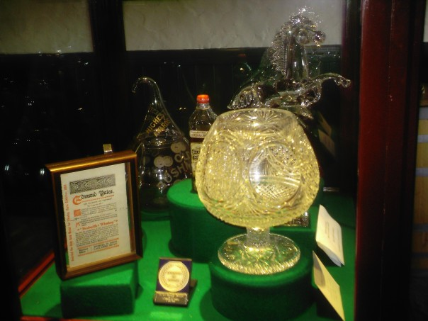 A showcase at Old Bushmills Distillery, Bushmills, County Antrim, Northern Ireland. Intended for use on Old Bushmills Distillery, whisky, Irish whiskey, or other Northern Ireland-related or alcohol-related articles